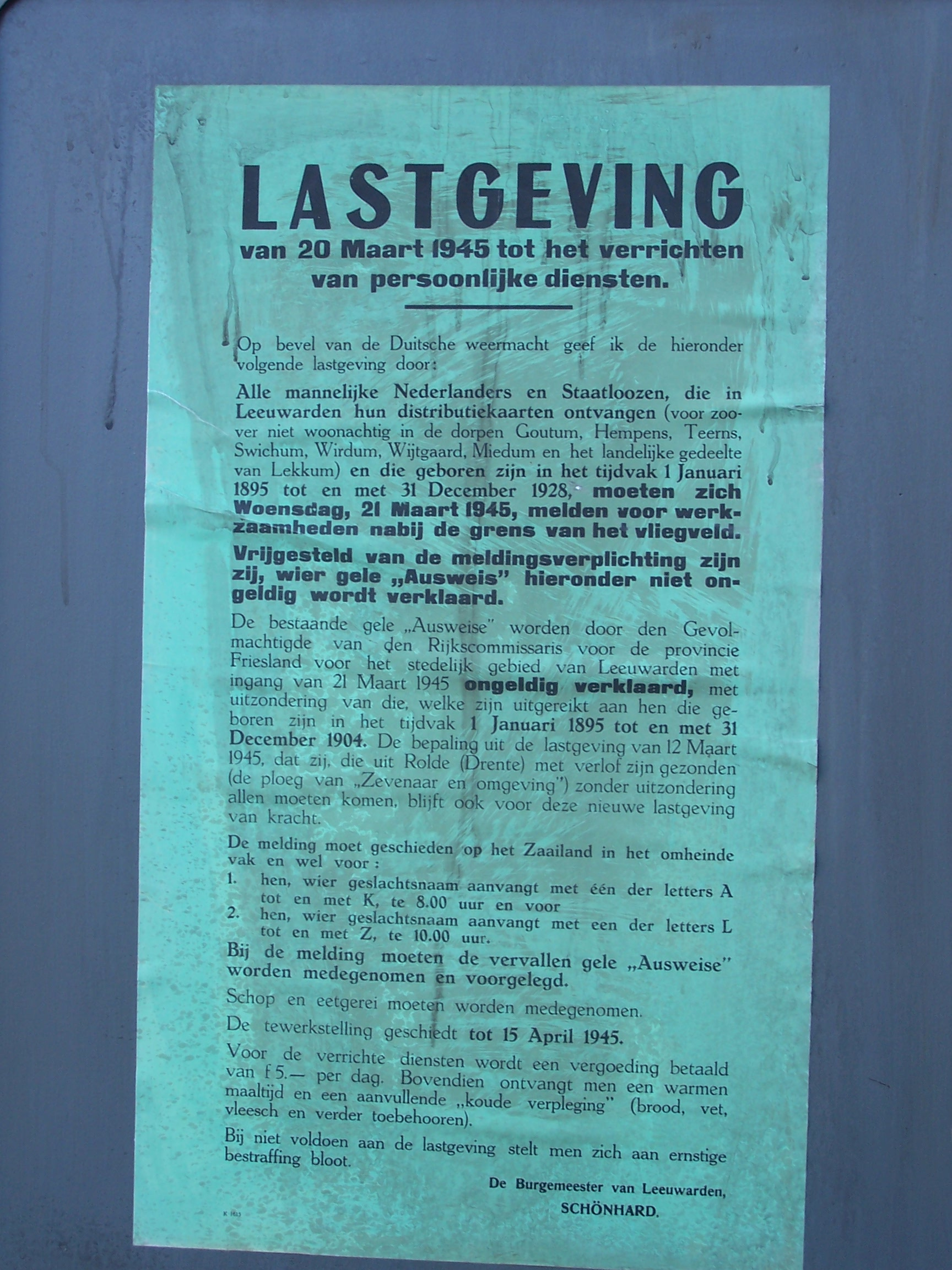 1945 poster on the 2005 film set of Paul Verhoeven's Black Book in The Hague, The Netherlands.